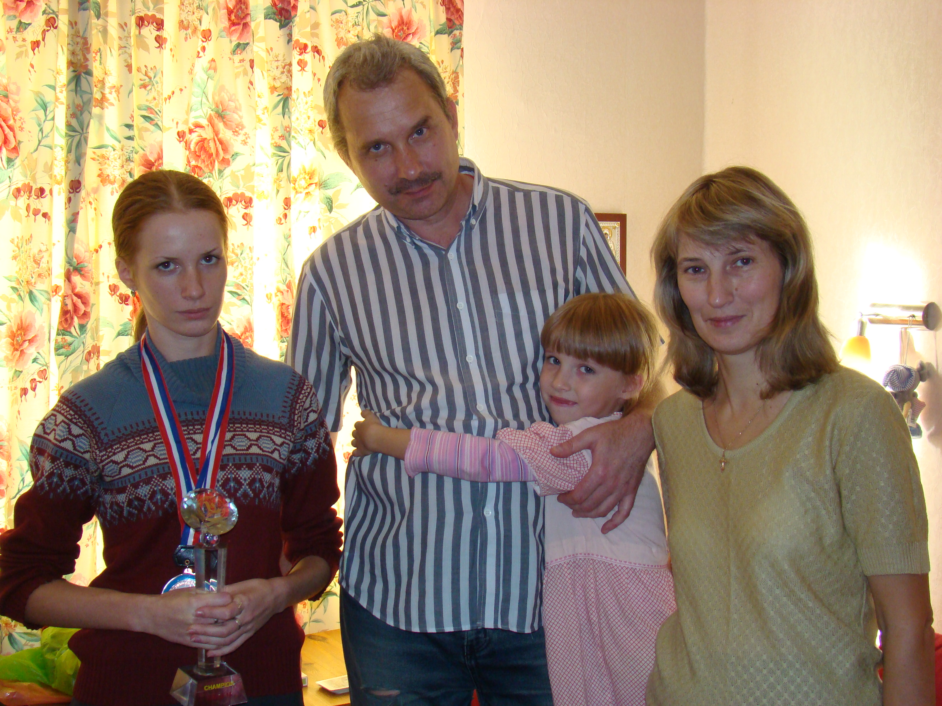 Golubenkos family